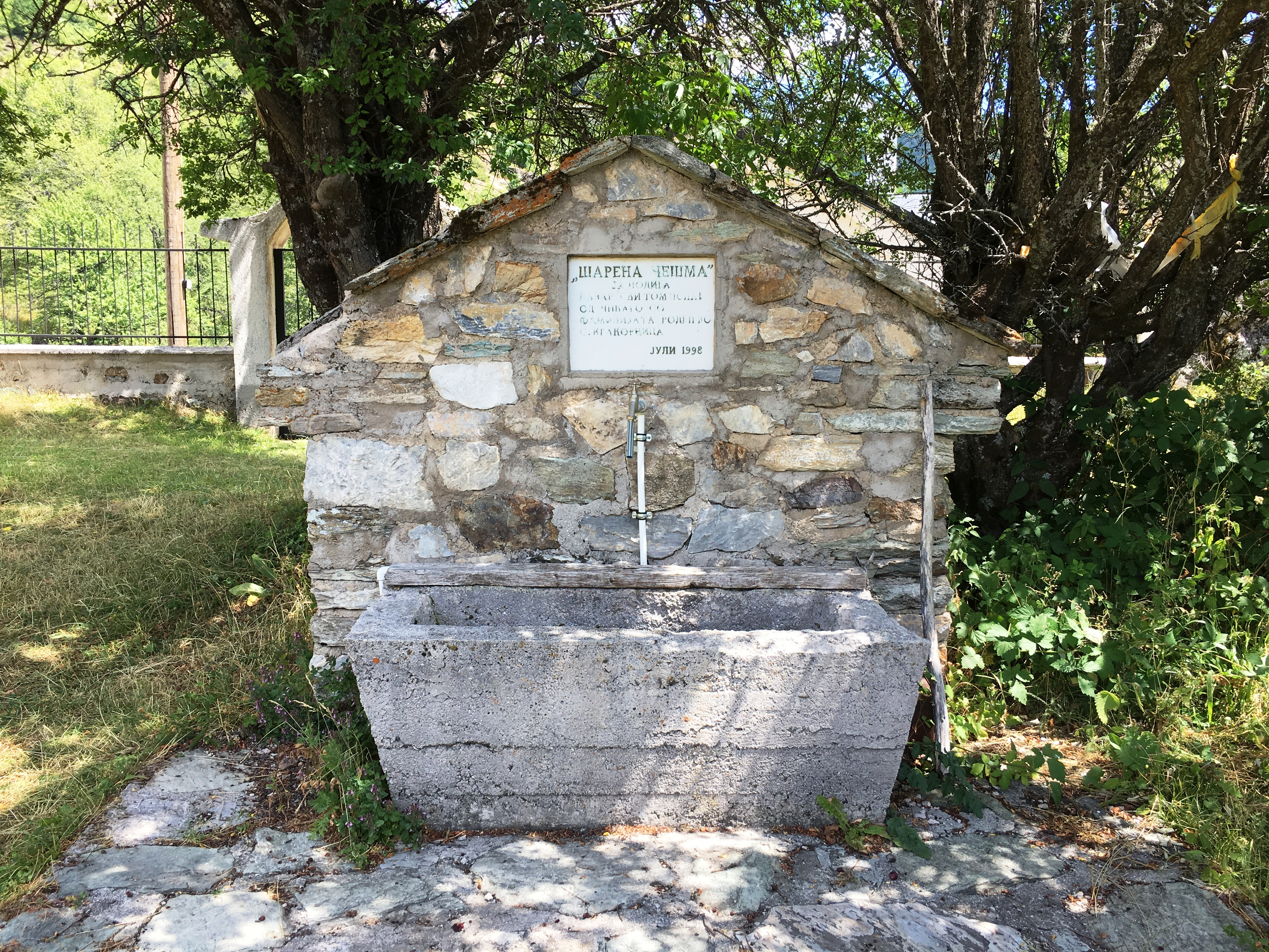 Motley pump in the village of Krakornica